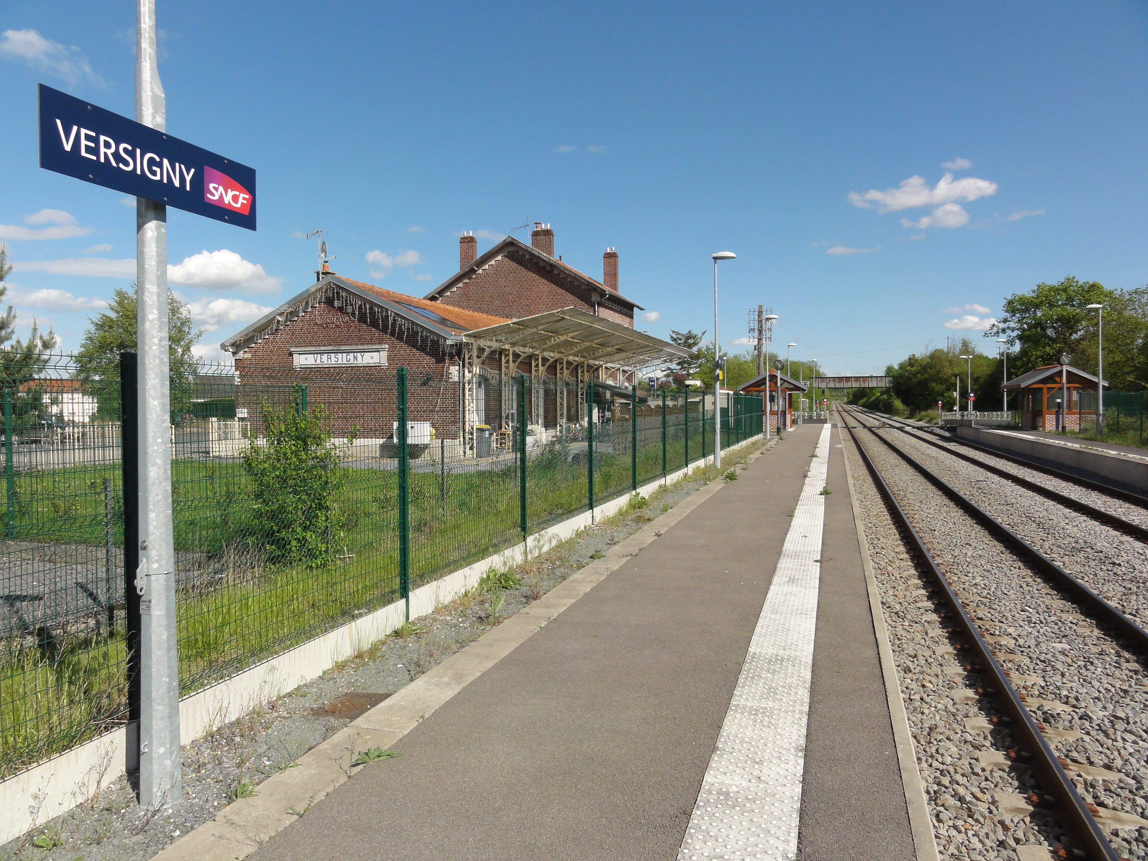 Versigny (Aisne) la gare